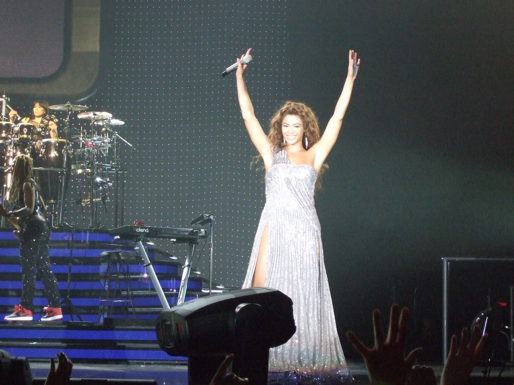 Beyoncé on tour The Beyoncé Experience in 2007.